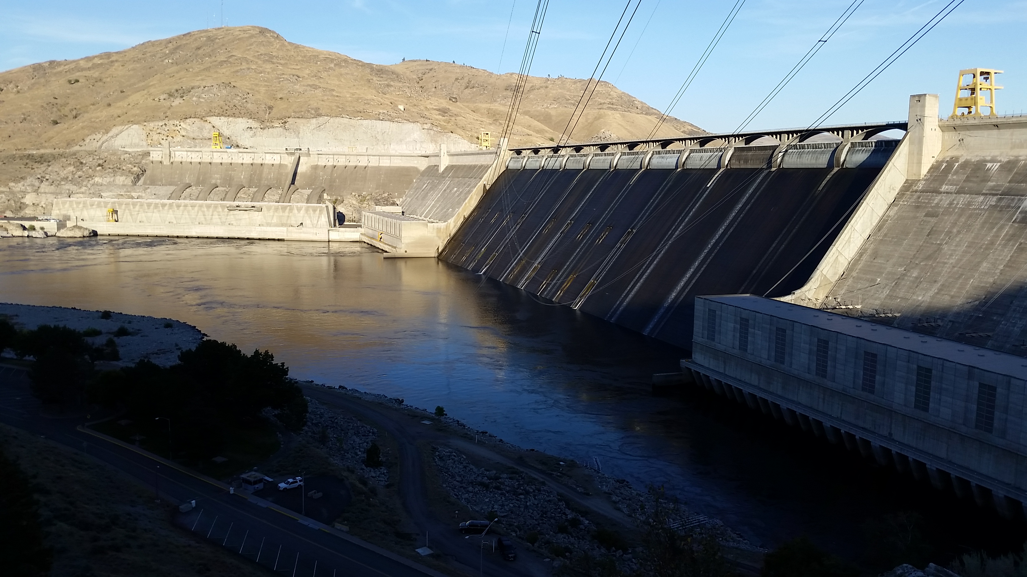 The Grand Coulee Dam as viewed near the visitor center.